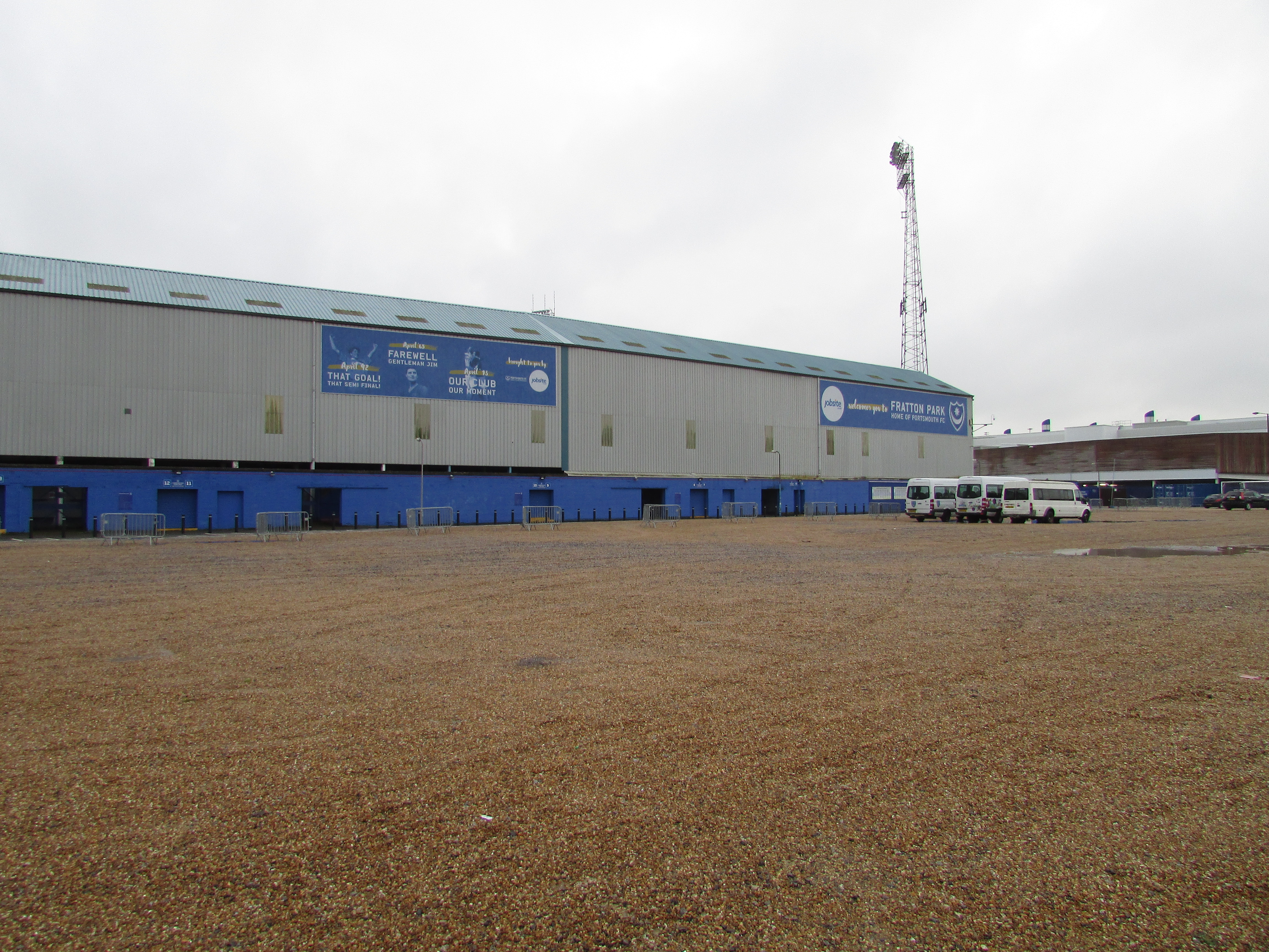 A view of the North grandstand and car park. Fratton Park is the home of Portsmouth Football Club (nickname Pompey). Pompey boasts the most honours of any football club south of London, most notably Football League Champions in 1948-49 and 1949-50, and F.A.Cup Winners in 1939 and 2008. The football club is in the city of Portsmouth in the English county of Hampshire in England.